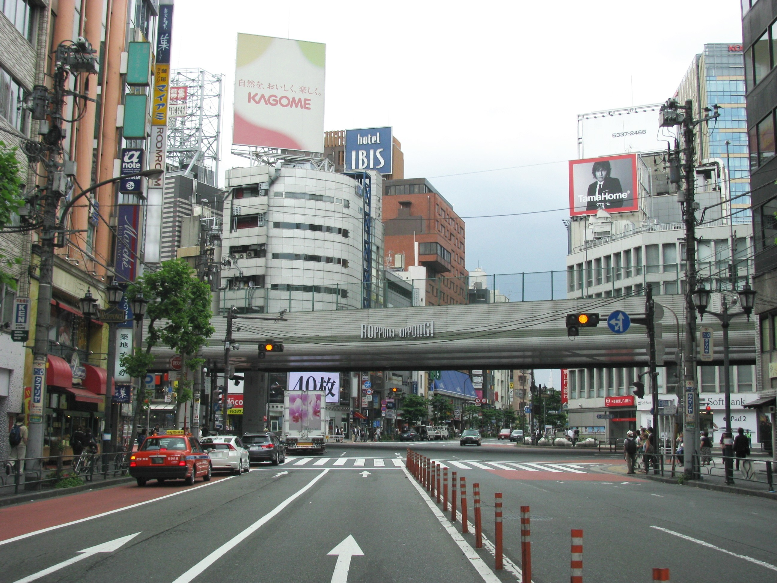 The Tokyo Prefectural Route 319. This location is Roppongi in Minato, Tokyo, Japan.